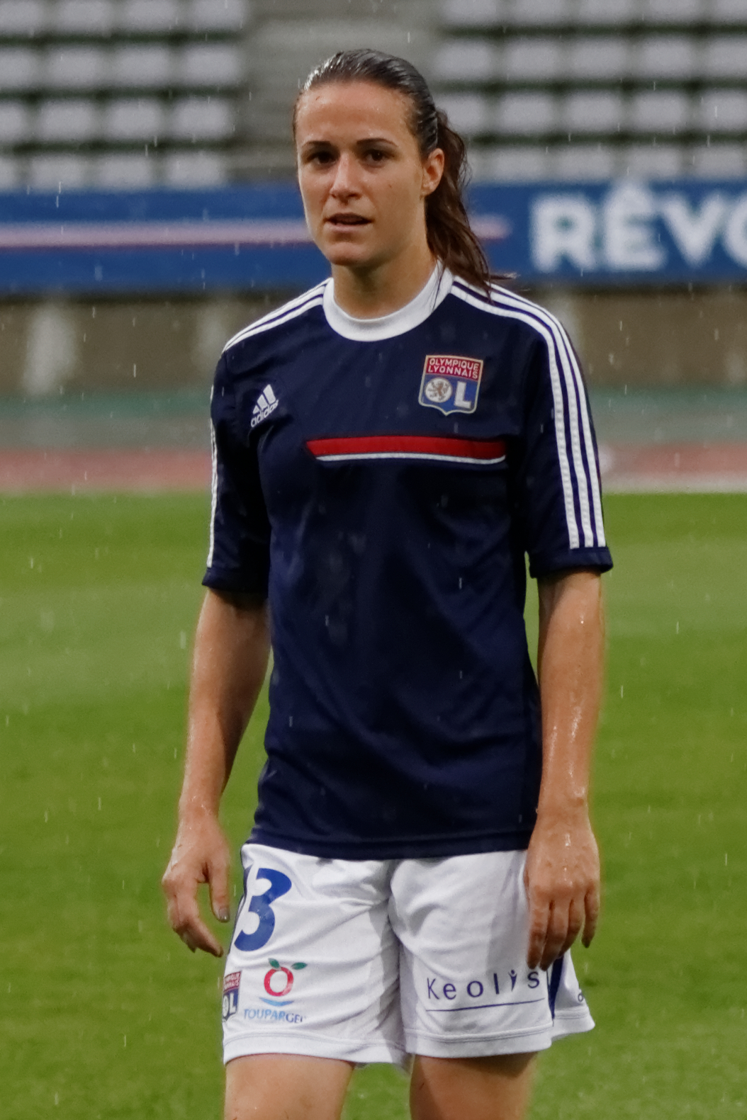 PSG-Lyon, September 29th, 2013.